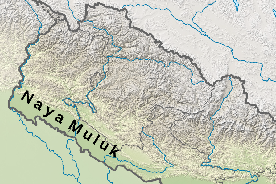 A map showing area of Naya Muluk which returned to Nepal by British India in 1860